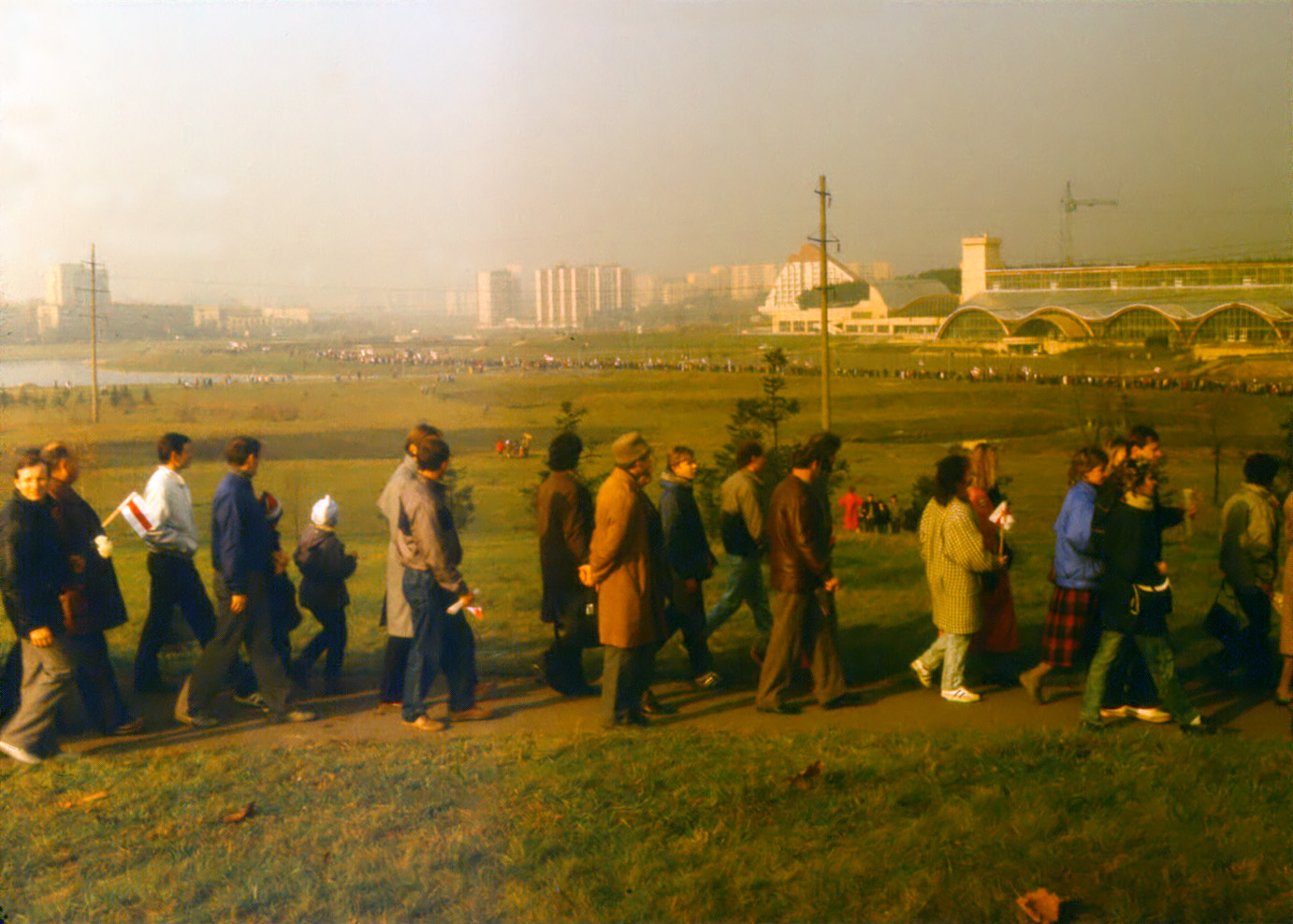 Dziady 1989, Kurapaty, Belarus.